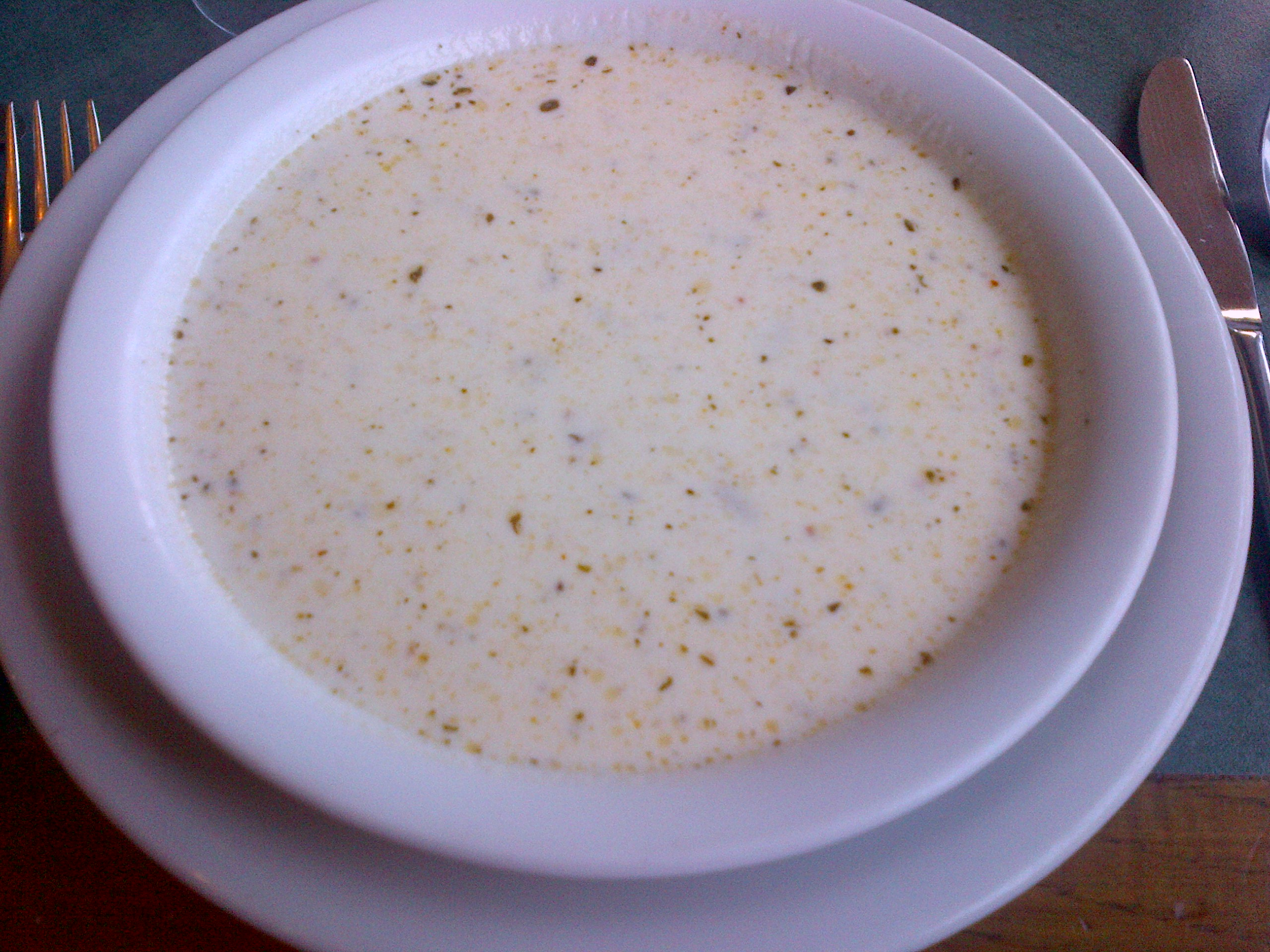 "Toyga çorbası" or "Toyga" soup, from Turkey.